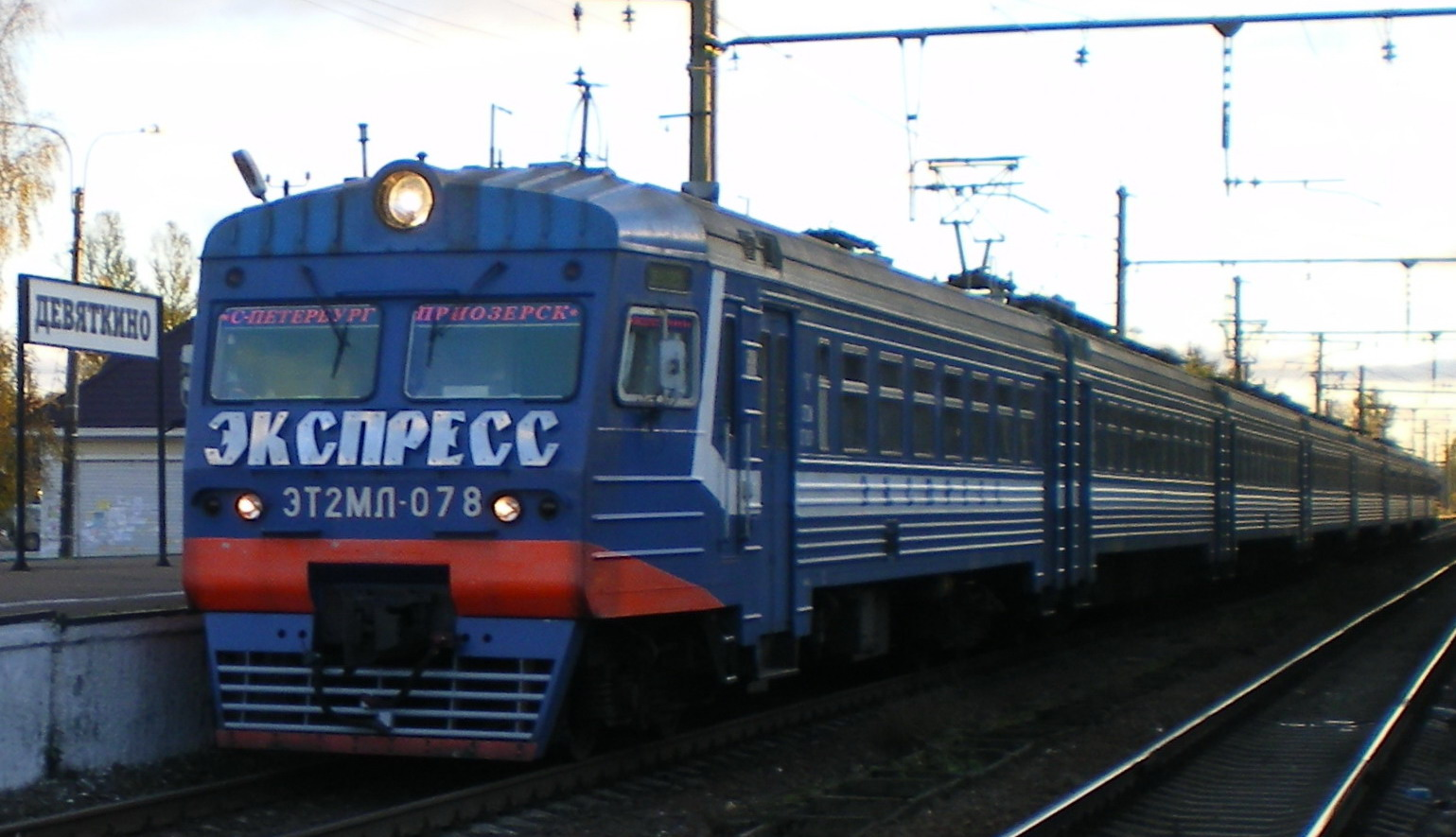 ET2ML-078 «Express» at the railway station «Devyatkino»